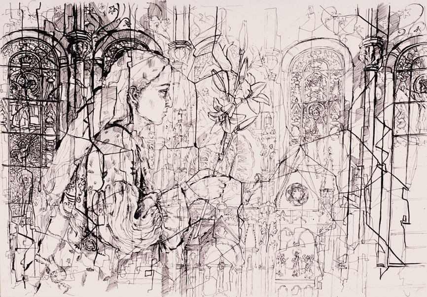 Annunciation (ink on paper, 42x29 cm)